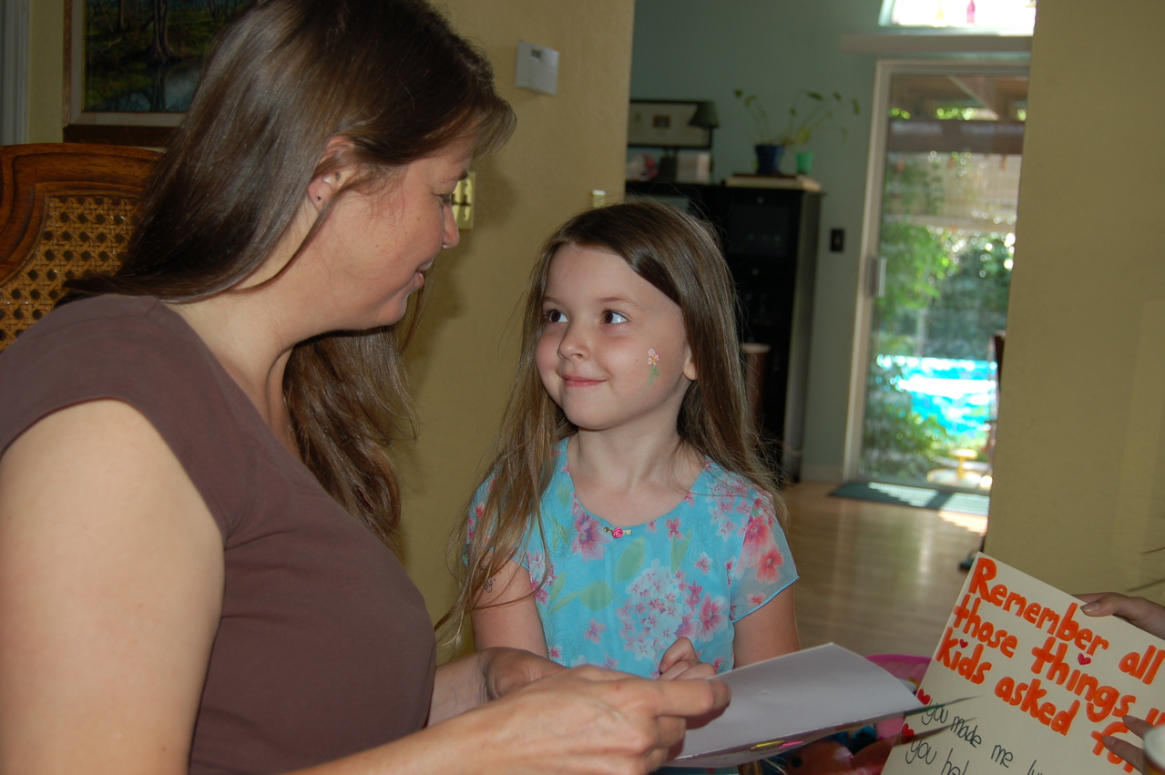 Hope all you moms had fun today!